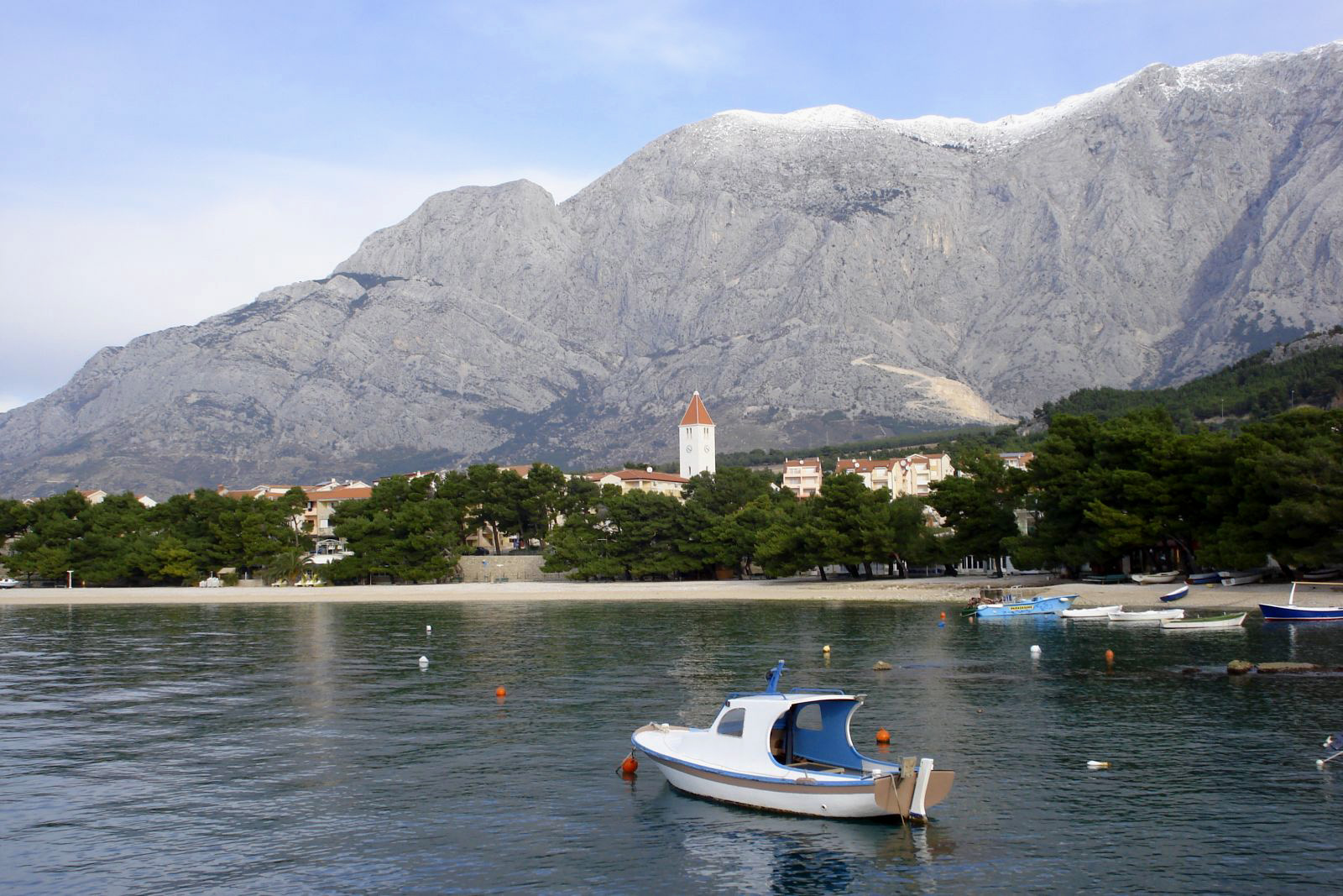 Promajna, near Baška Voda.